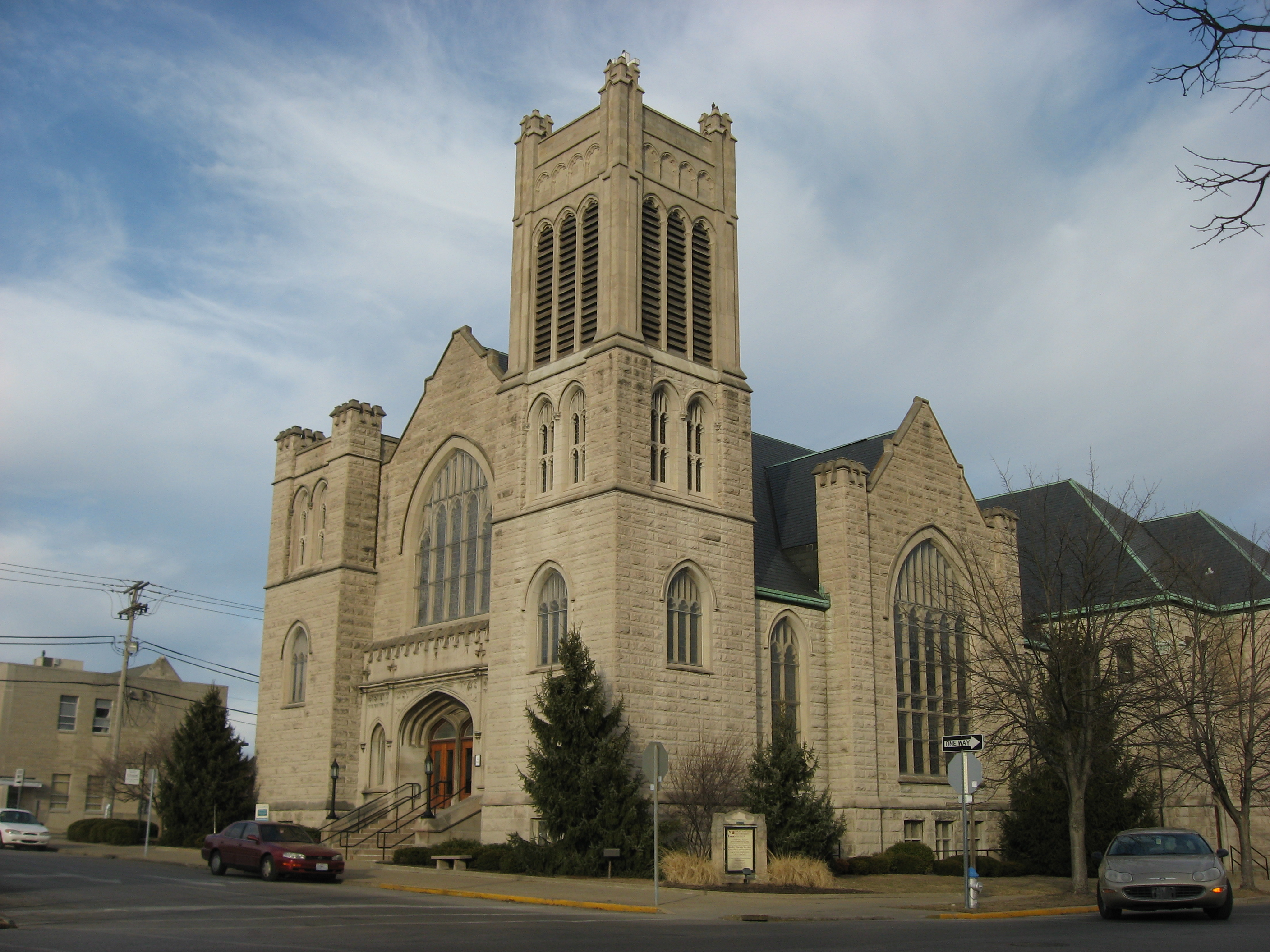 Front of First United Methodist Church, located at 219 E. Fourth Street in Bloomington, Indiana, United States and built in 1909.